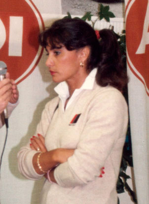 Michèle Mouton is interviewed at JB Volkswagen in Cardiff on the eve of the 1985 Welsh International Rally.